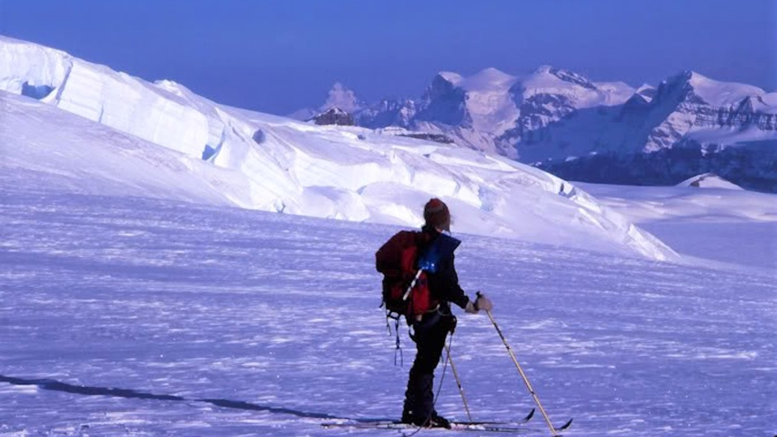 Ski Mountaineering on the W:Columbia Icefield in the W:Canadian Rockies, lower slopes of Snow Dome in the foreground, Mt. Forbes, Mt. Lyell (L1, L2, & L3), Farbus and Oppy Mtns on the horizon. This photo is cropped 16:9 and is big enough to be used for Apple wallpaper or PC background. Doug skiing.